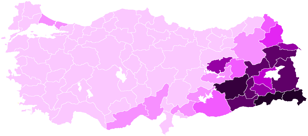 Peoples' Democratic Party performance in the Turkish general election, November 2015